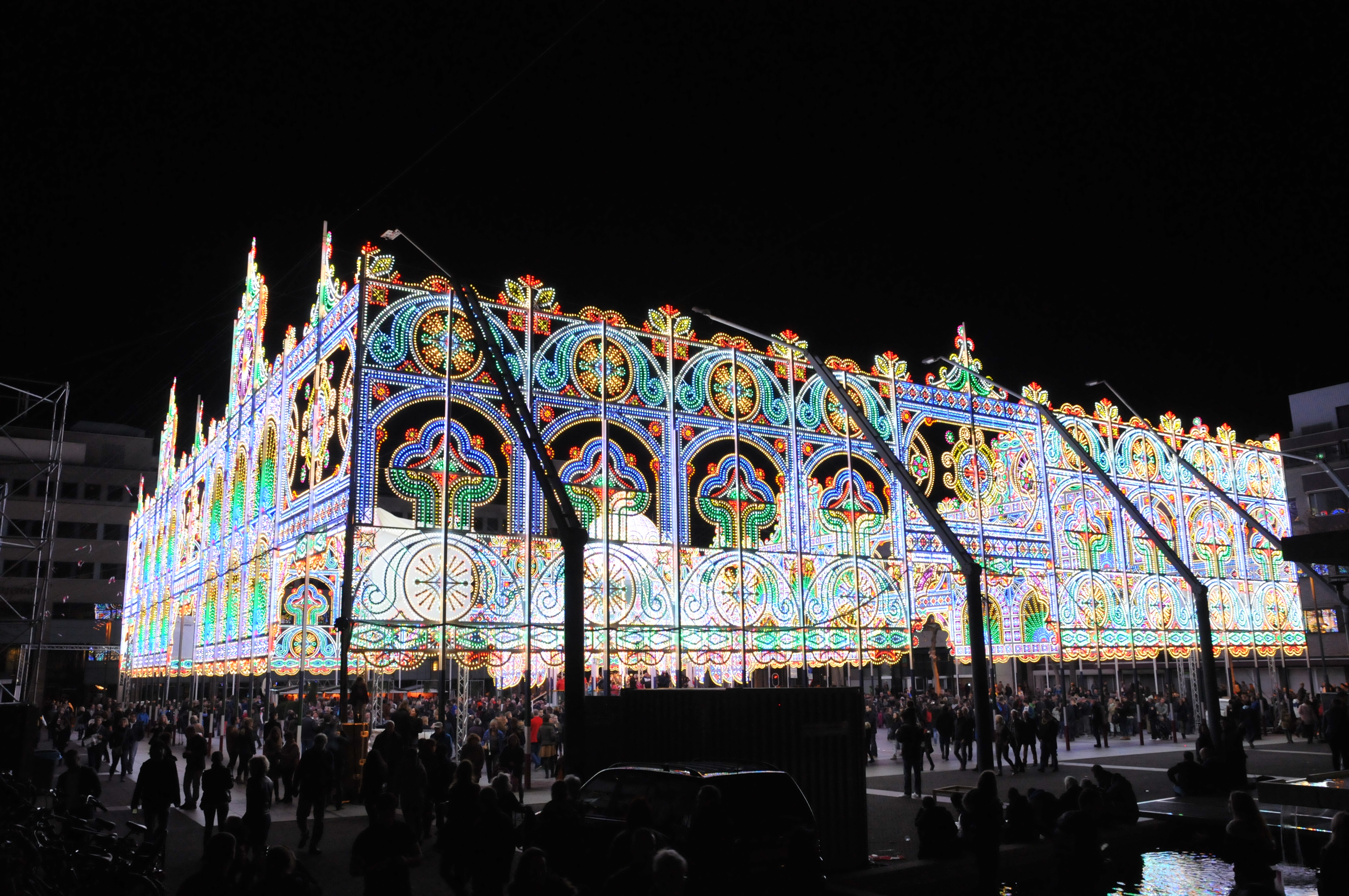 De Cagna is a breath-taking ‘house of light and music’.